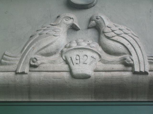 Zolli Bird House